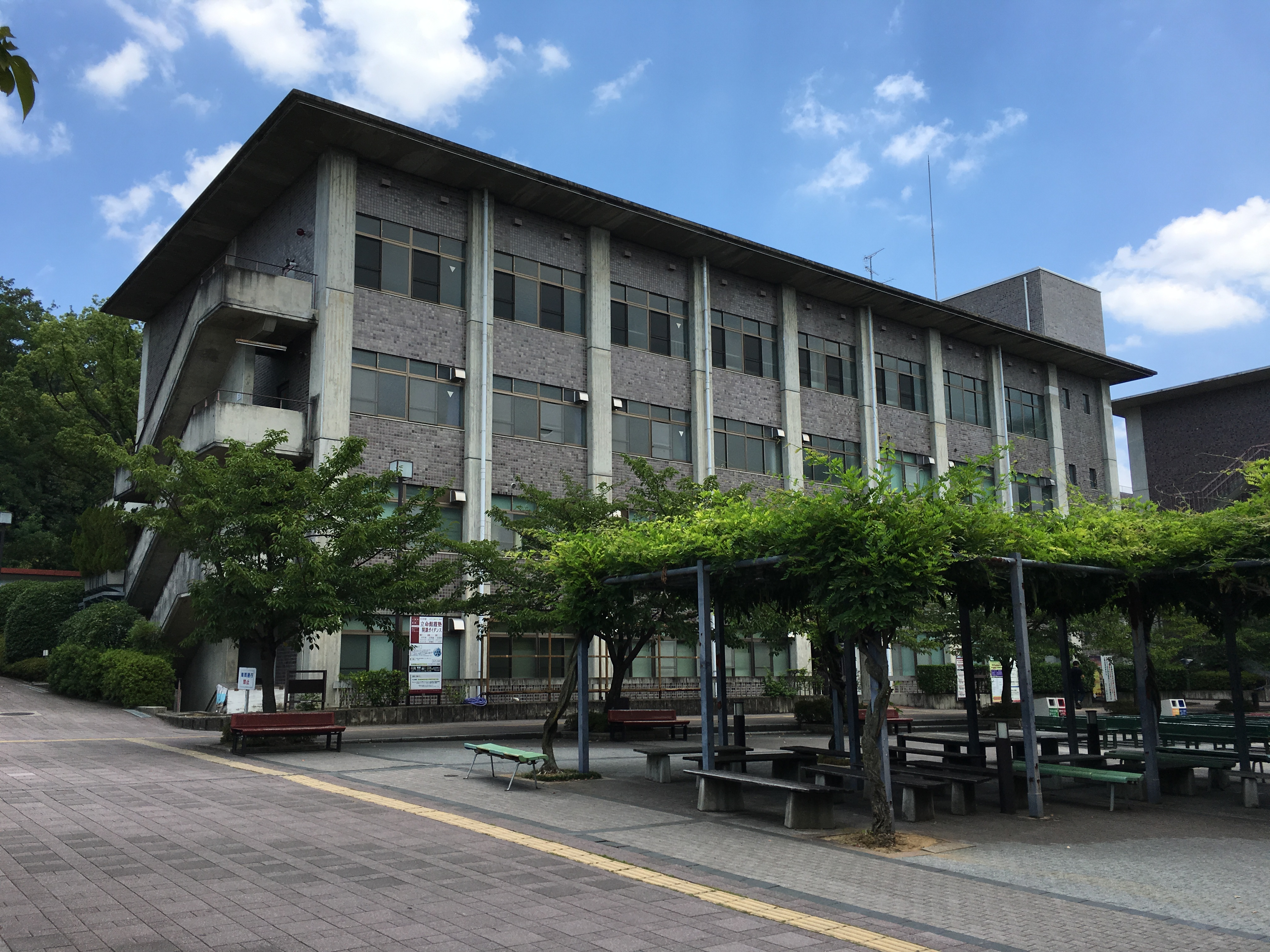 Kenshinkan Hall at Kinugasa Campus of Ritsumeikan University in Kyoto, Japan